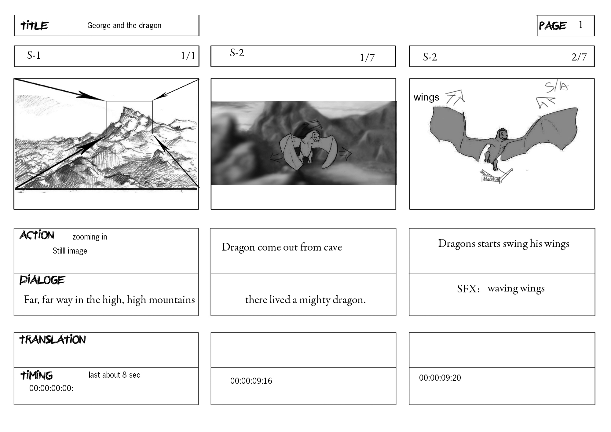 EN: Storyboarding example. LT: Storyboard kadruočių pavyzdys.